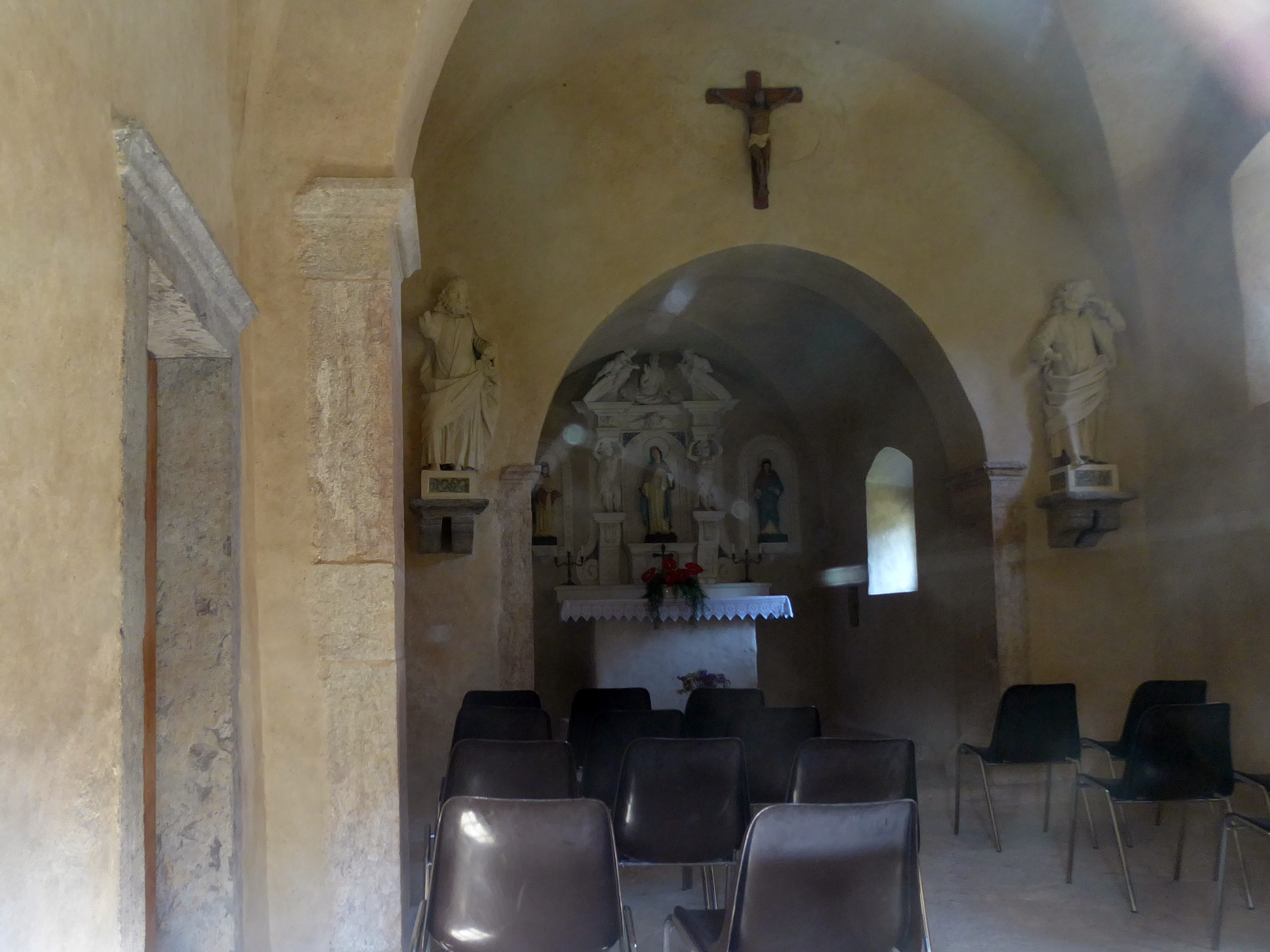 Manzano (Mori, Trentino, italy), Saint Apollonia church - Interior